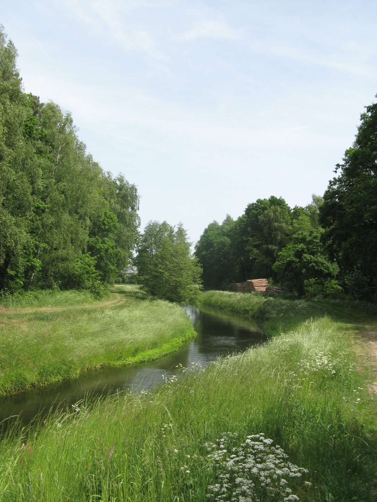 Rögnitz river near Niendorf a. d. Rögnitz, Mecklenburg-Vorpommern, Germany